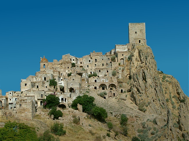 Craco, july 2003 Picture taken and edited by user:Idéfix